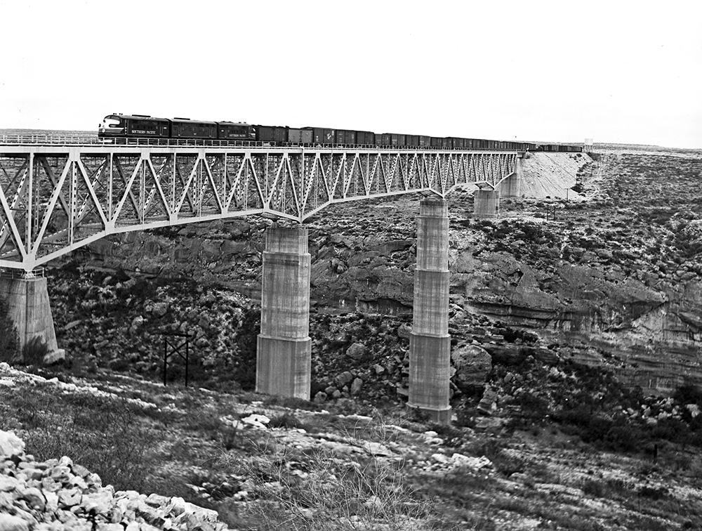 Title: [Pecos River High Bridge, Southern Pacific Railroad] Creator: Robert Yarnall Richie, 1908-1984 Date: 1951 Place: High Bridge, Texas Part Of: Robert Yarnall Richie photograph collection Physical Description: 1 negative: film, black and white; 10 x 13 cm File: ag1982_0234_3425_001_southpacrailroad_sm_opt.jpg Rights: Please cite Southern Methodist University, Central University Libraries, DeGolyer Library when using this image file. A high-quality version of this file may be obtained for a fee by contacting . For more information, see: View the full series: View the Robert Yarnall Richie Photograph Collection